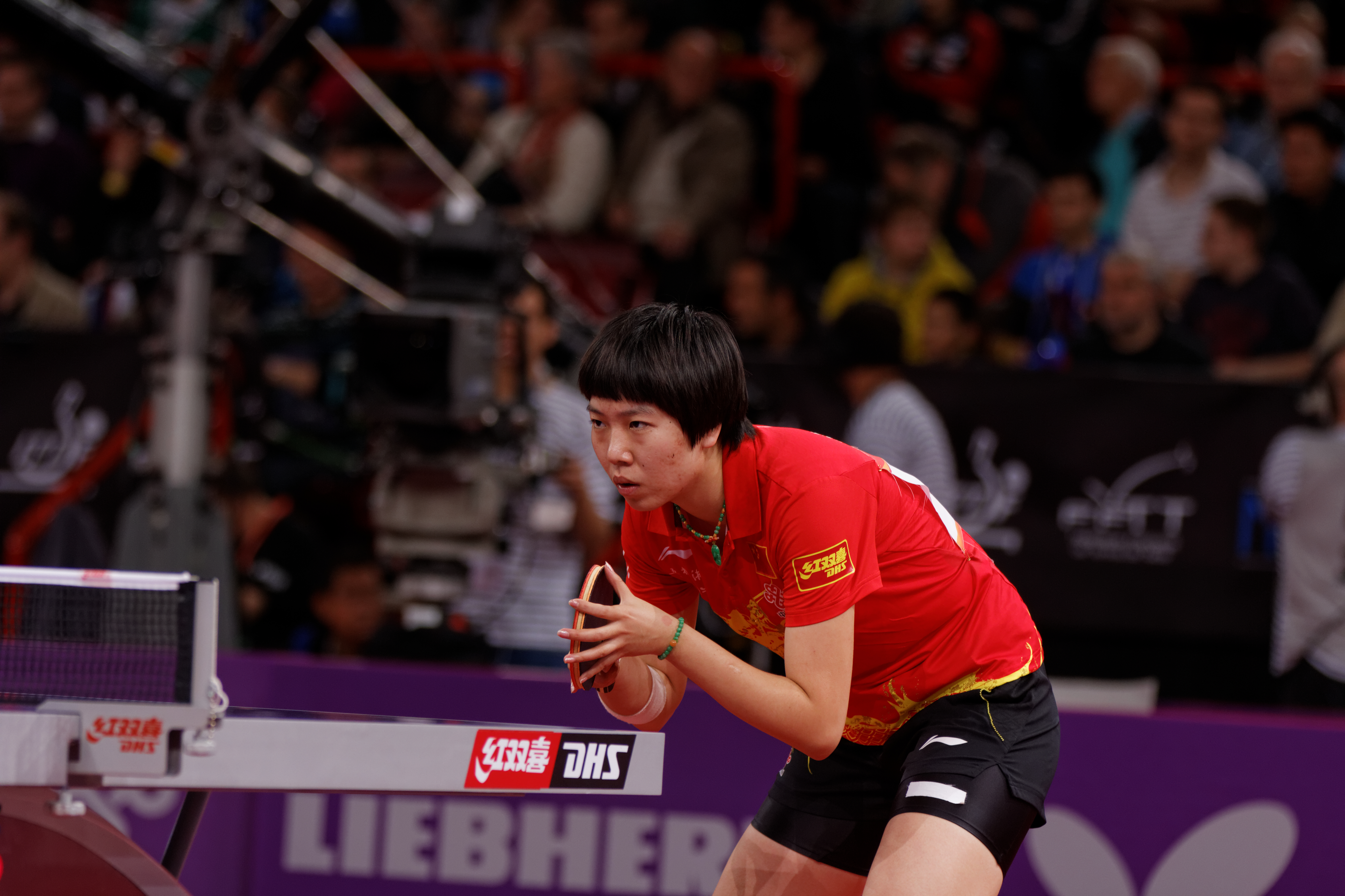 2013 World Table Tennis Championships, Paris. Women's Singles Quarterfinal.Wu Yang vs Li Xiaoxia.